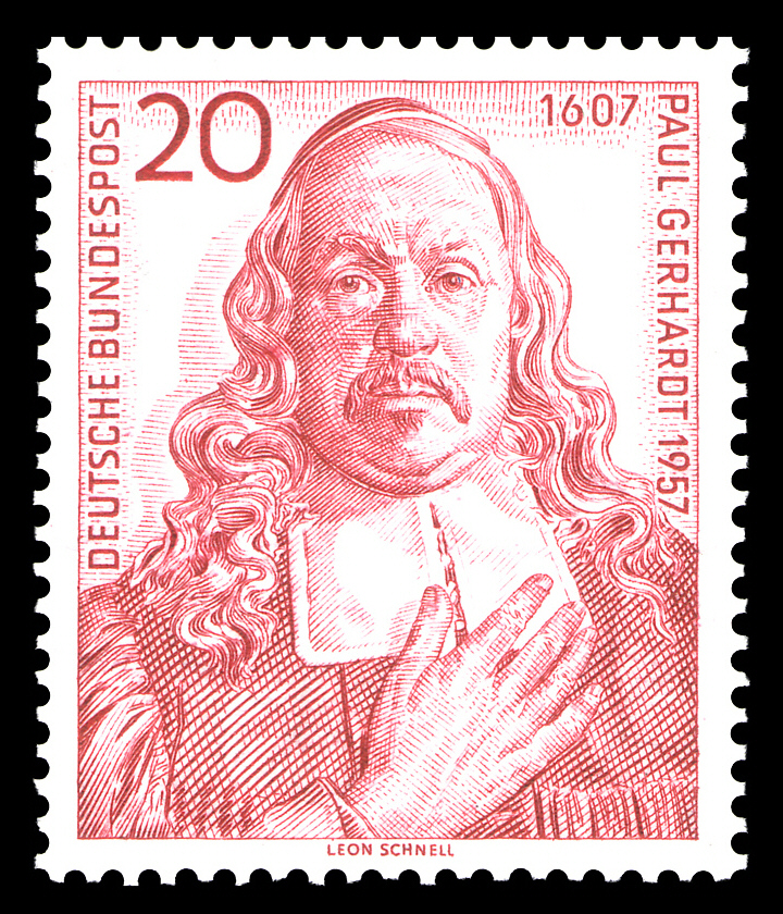 Special stamp for the 350th anniversary of the birth of Paul Gerhardt (1607-1676)